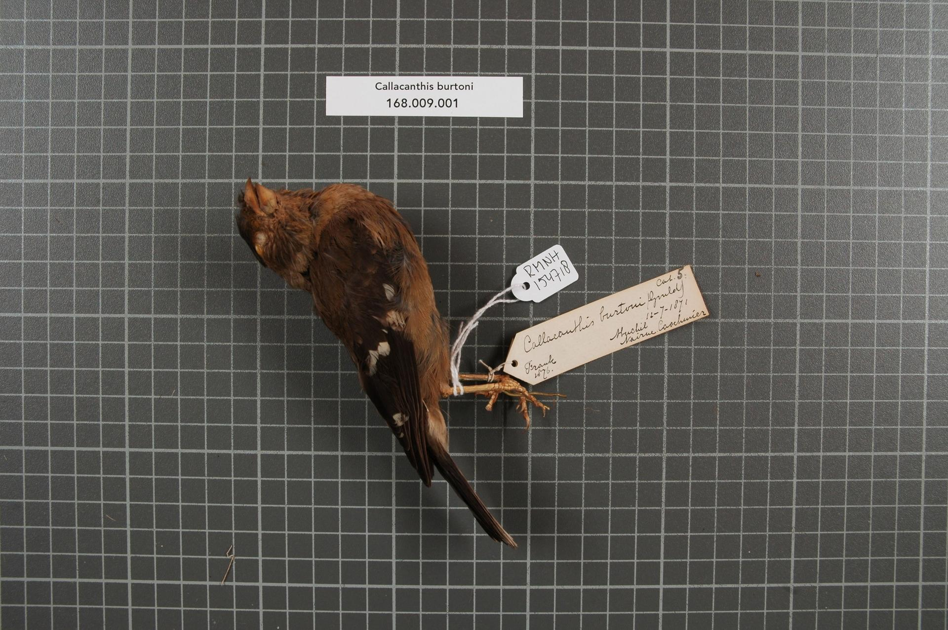 Callacanthis burtoni (Gould, 1838)